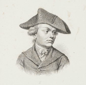 Self-portrait of German printmaker Carl Gottlieb Guttenberg, engraved by Friedrich Fleischman.